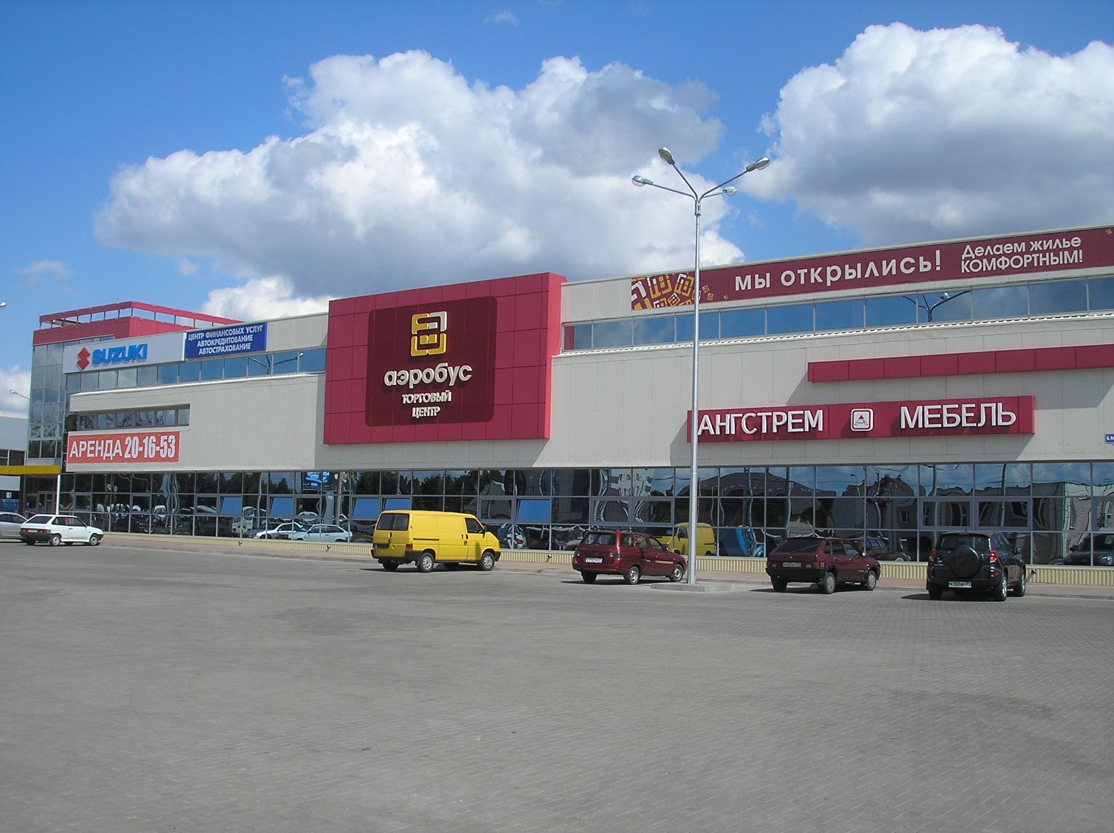 На текущий момент это Мебельный Центр M-life. г. Белгород